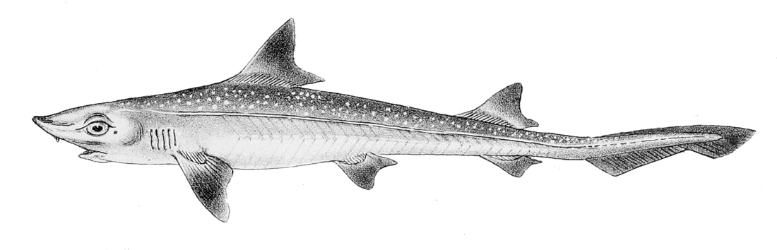 Mustelus mustelus